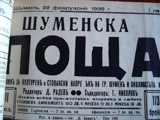 Shumenska poshta newspaper, 1938